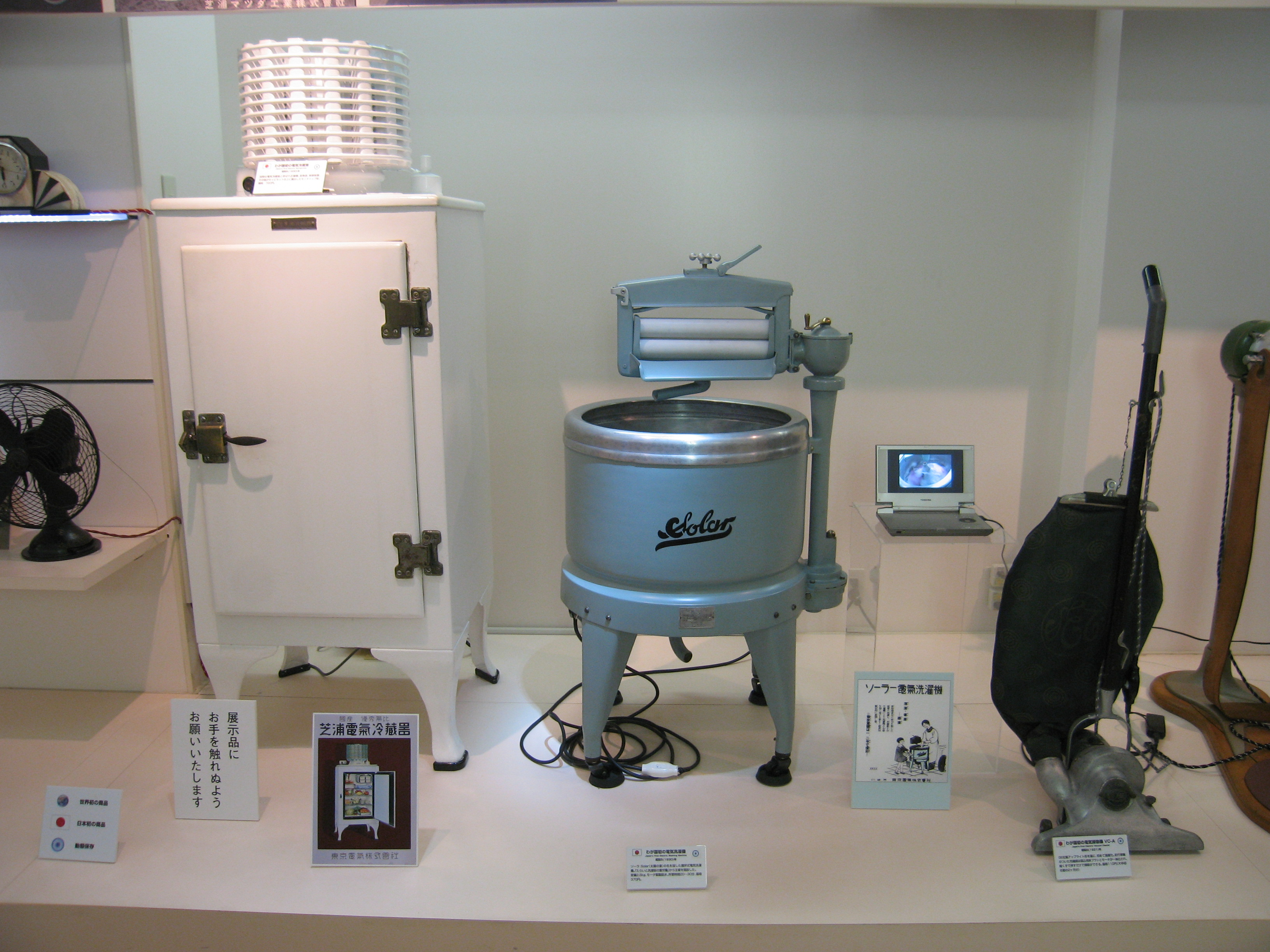 "SS-1200"(Japan First Electric refrigerator 1930) , "Solar"(Japan First Electric Washing machine 1930) , "VC-A"(Japan First Electric Vacuum cleaner 1931) at Toshiba Science Museum, Kawasaki, Japan